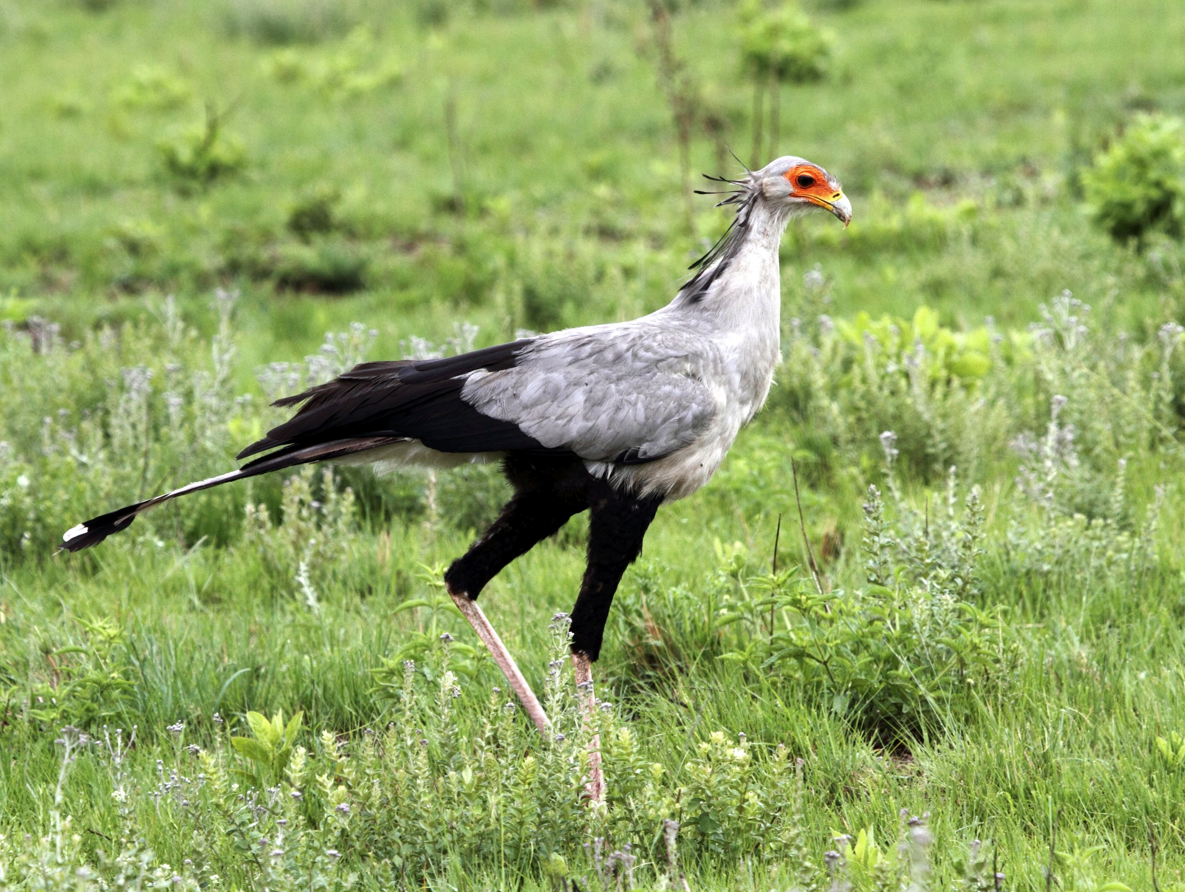 Secretarybird Sagittarius serpentarius at Itala Game Reserve, KwaZulu-Natal.